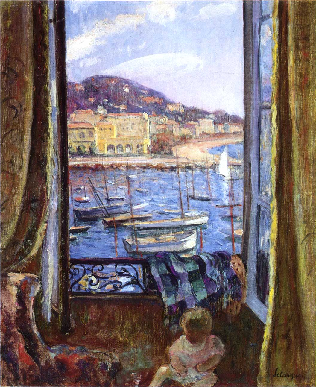 "The Quay at St Pierre in Cannes," by the French artist Henri Lebasque, oil on canvas. Undated. Image courtesy of The Athenaeum.